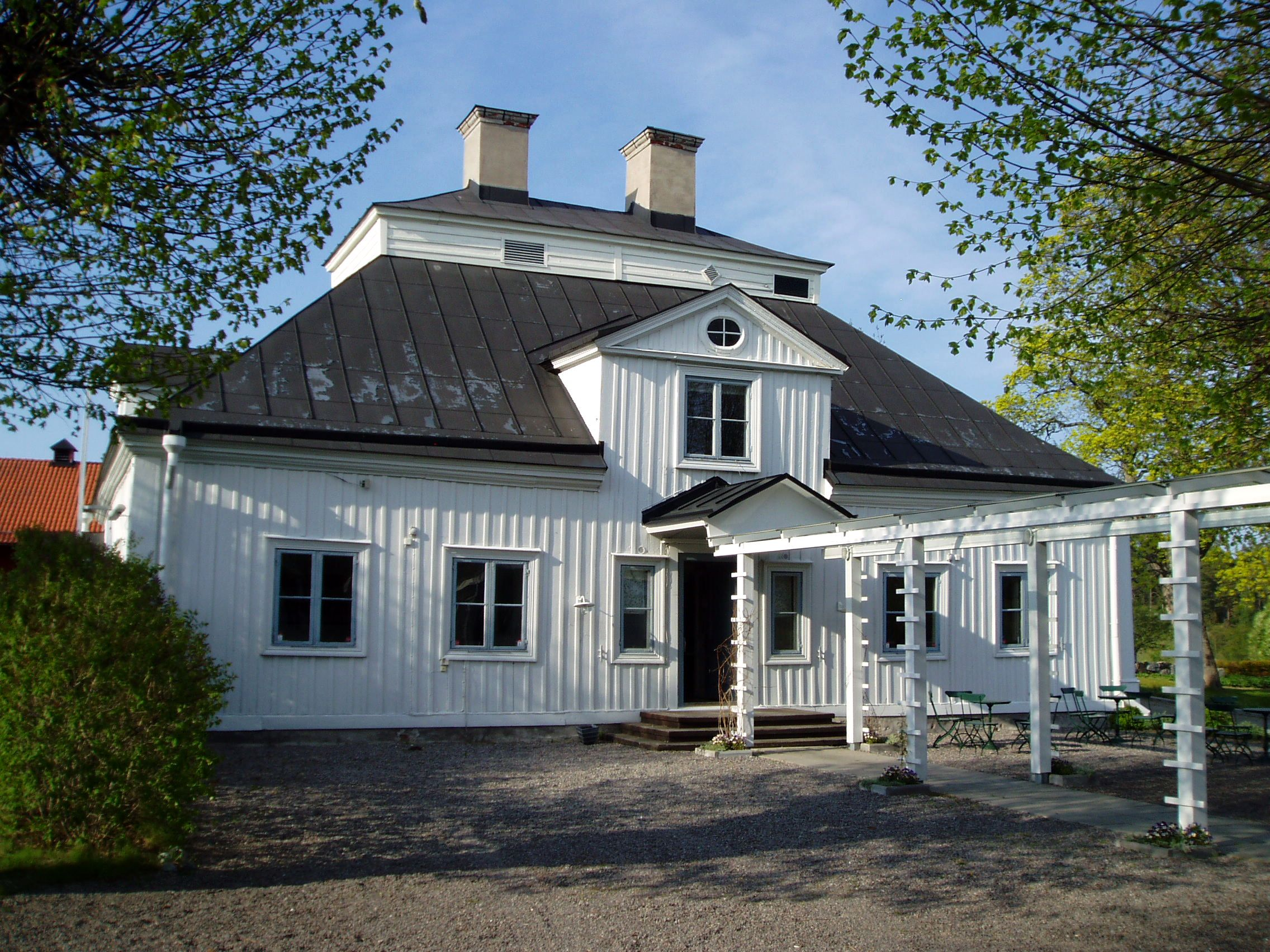 Fågelbro, former mansion, now Golf & Country Club